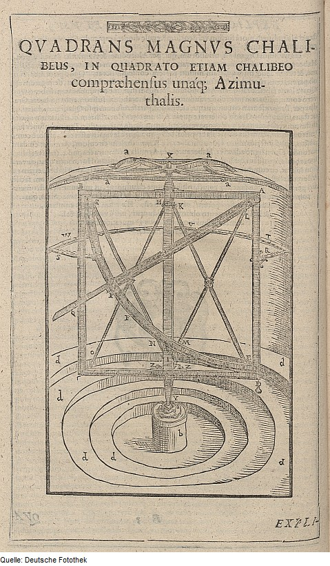 Original image description from the Deutsche Fotothek Astronomie & Messinstrument